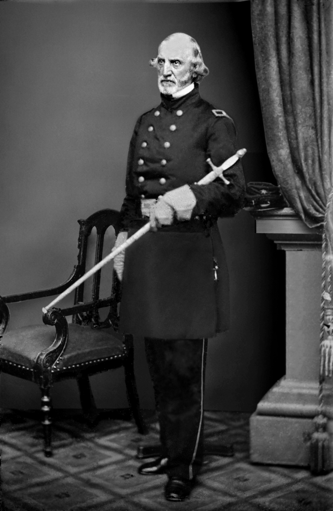 American Civil War General Daniel Tyler, USA. (Digitally restored image)